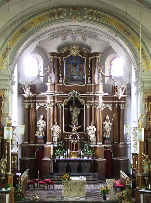 High altar of St. Peter's and Paul's Parish Church in Villmar, Germany. Late Baroque décor of "Hadamar school" (Johann Thüringer and Jakob Wies, 1760-1764).